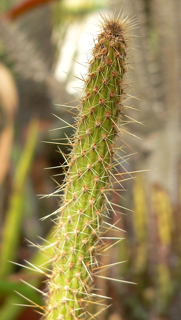 Photo of Leocereus bahiensis at the University of California Botanical Garden